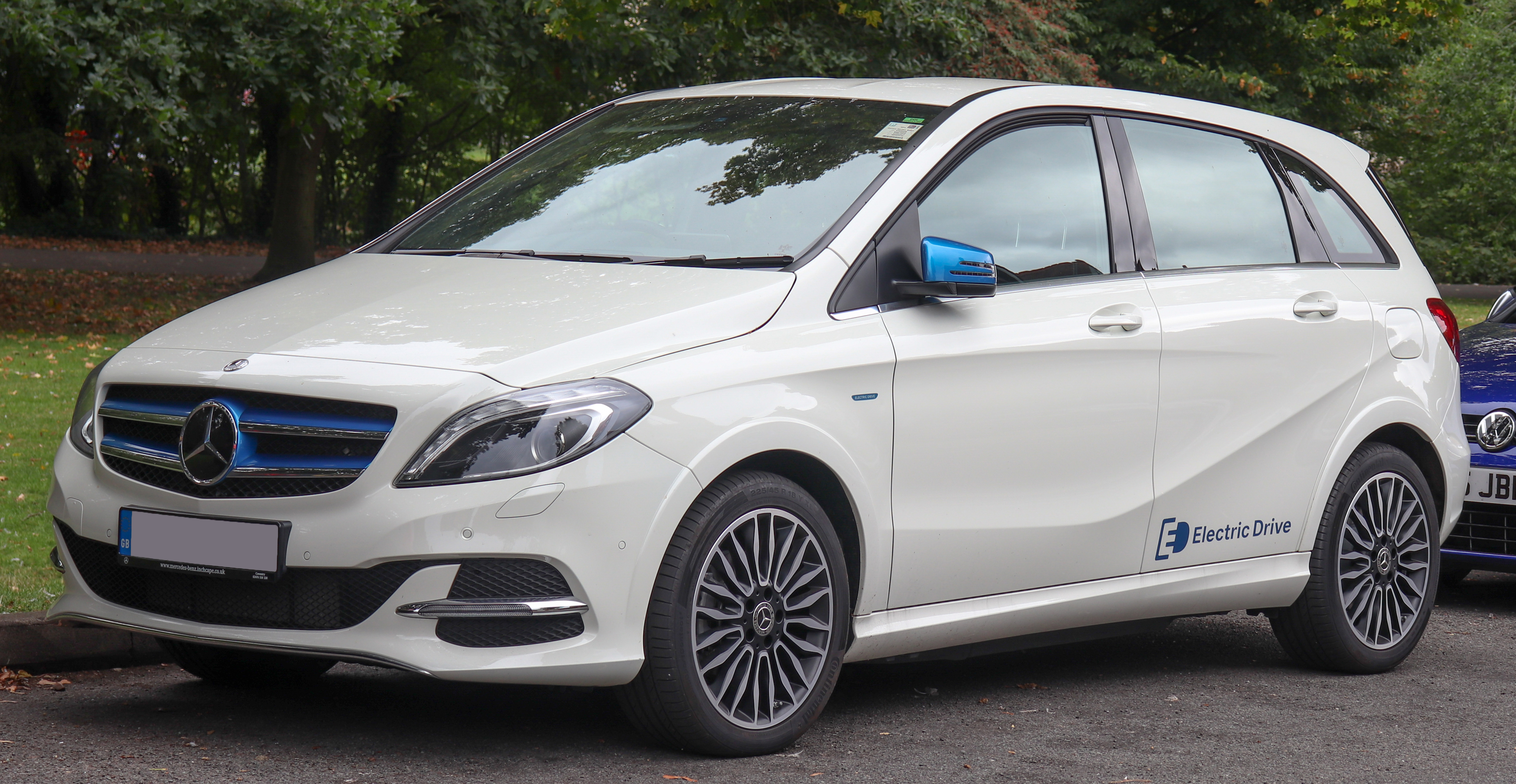 2018 Mercedes-Benz B-Class Electric Drive Electric Art Premium Front Taken in Leamington Spa